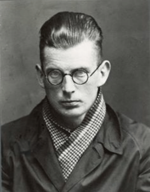 Photograph of Samuel Beckett as a student in the 1920s